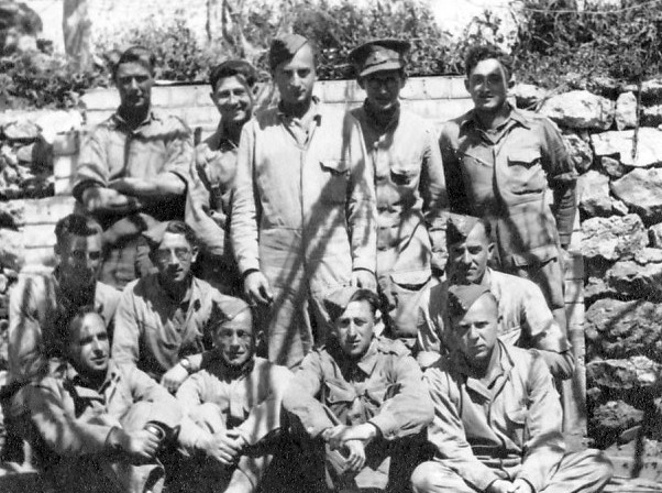 Jewish soldiers from British Mandate Palestine serving in the UK Armed Forces during WW2 (1943). Picture taken at the Western Desert in Egypt. One of the soldiers depicted is David Fleischman, member of Kibbutz Gan Shmuel (wearing a cap).